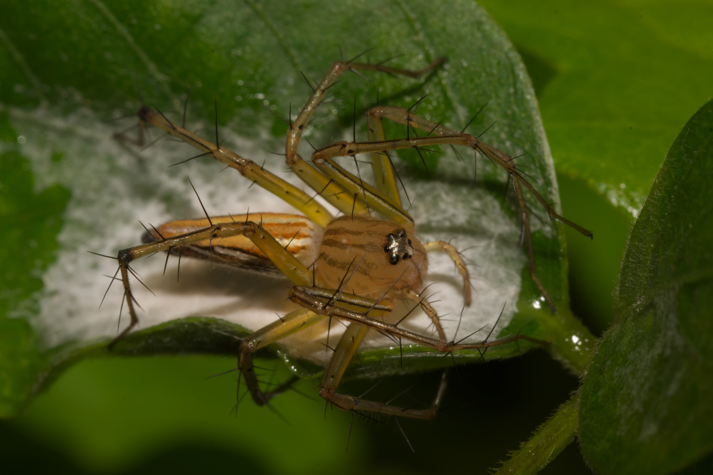 Oxyopes javanus tending her egg sack.